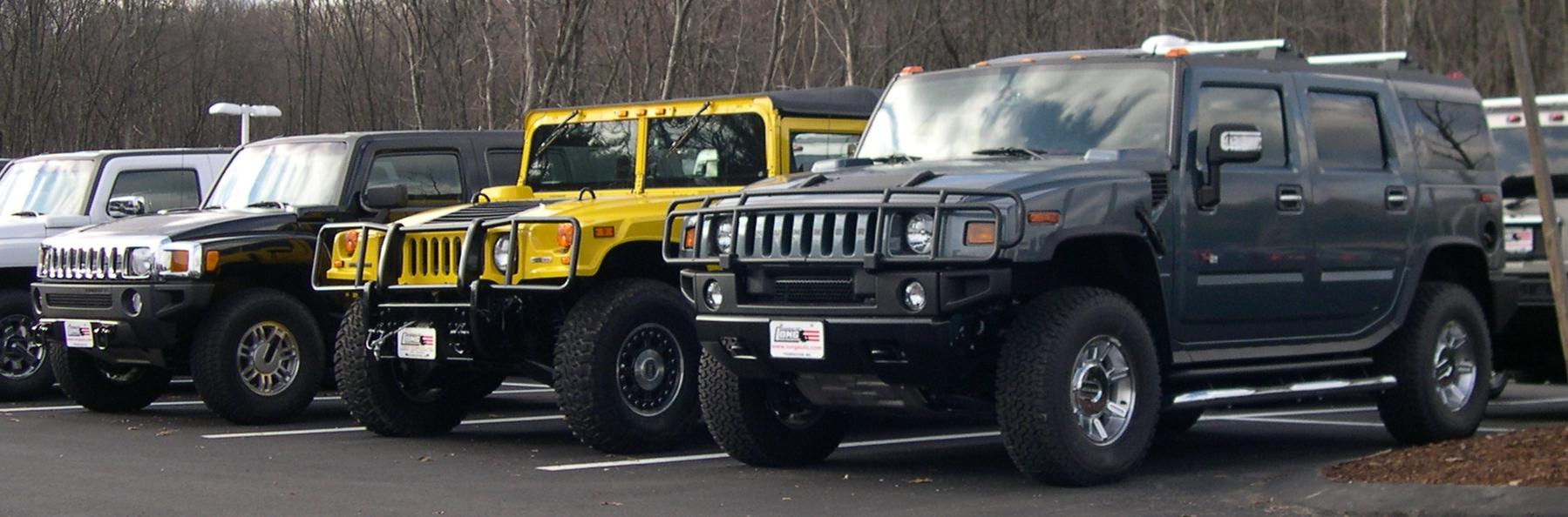 2006 Hummer lineup (L-R) H3, H1, and H2